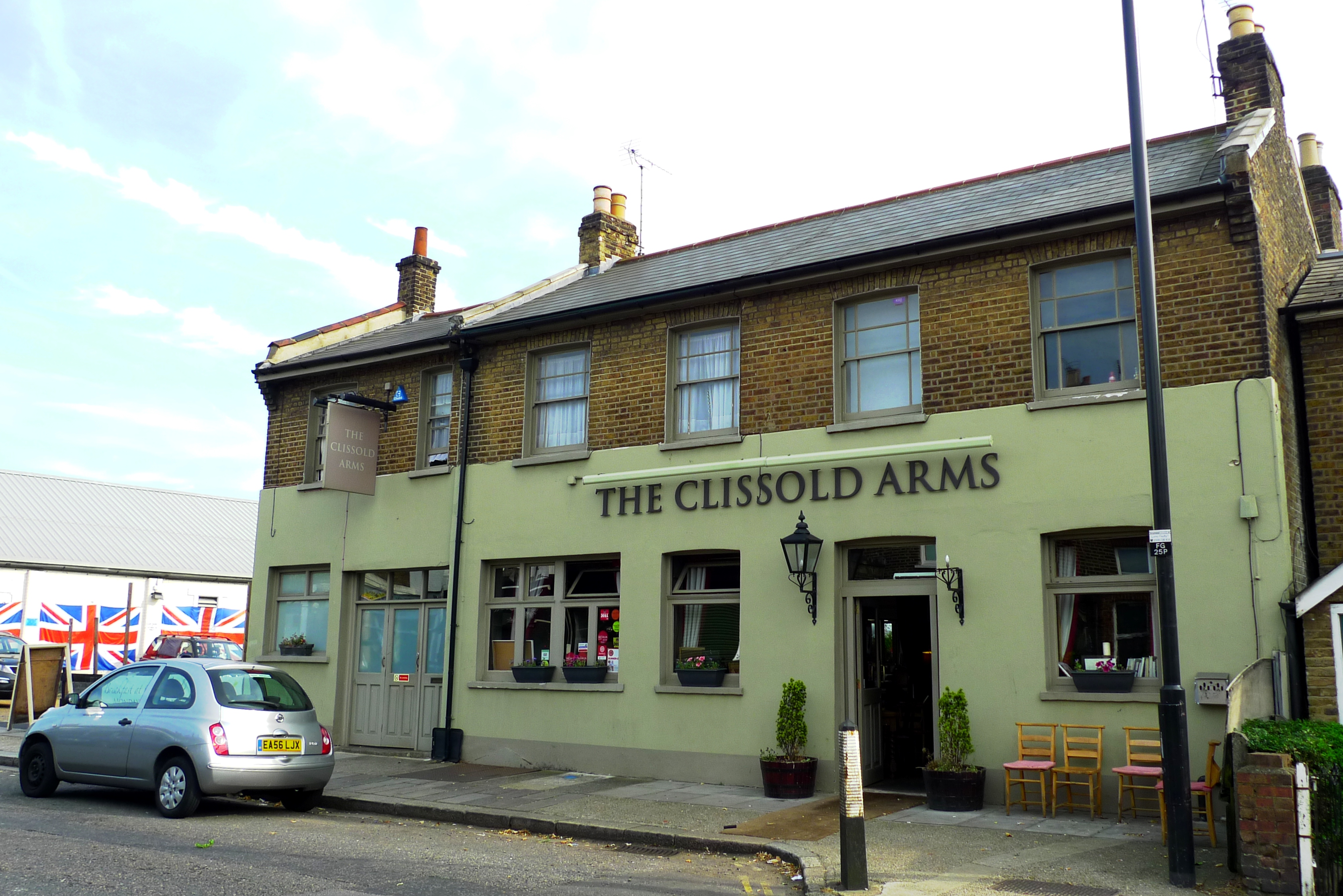 A gastropub in leafy Fortis Green. Address: 105 Fortis Green. Owner: Punch Taverns [Spirit Group] (website); Jobo Developments (former). Links: Fancyapint Pubs Galore Beer in the Evening